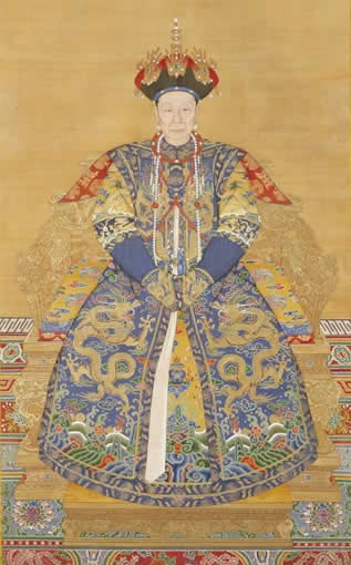 The Official Imperial Portrait of Qing Dynasty's Empress